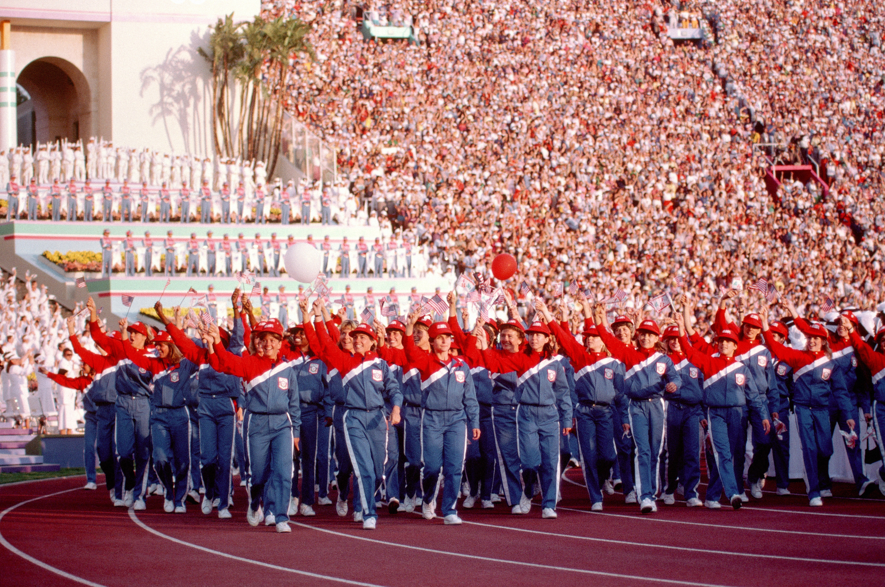 Members of the US Olympics Team wave to spectators as they march into the LA Coliseum during the opening ceremonies for the 1984 Summer Olympics.